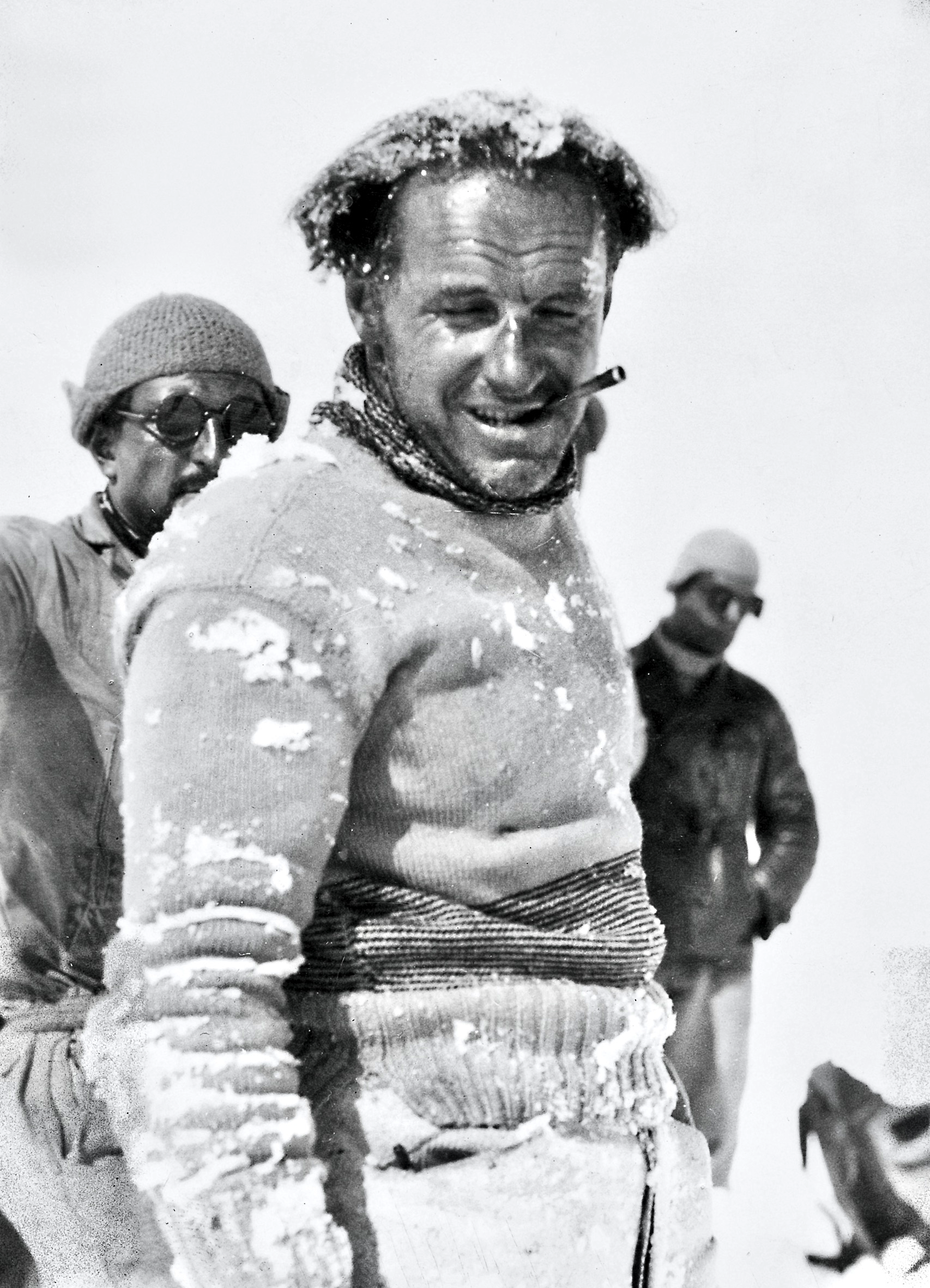 The German mountain and ski film pioneer Arnold Fanck (1889-1974) exposed himself and his crew of actors and cameramen to the greatest danger to life, here at a crevasse